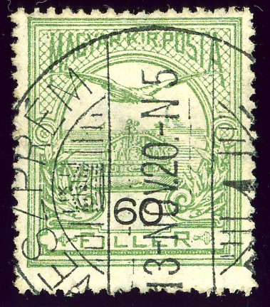 Kingdom of Hungary 60 fillér stamp, issue 1908, cancelled at VESZPRÉM in 1913, Hungary. Michel N°104.